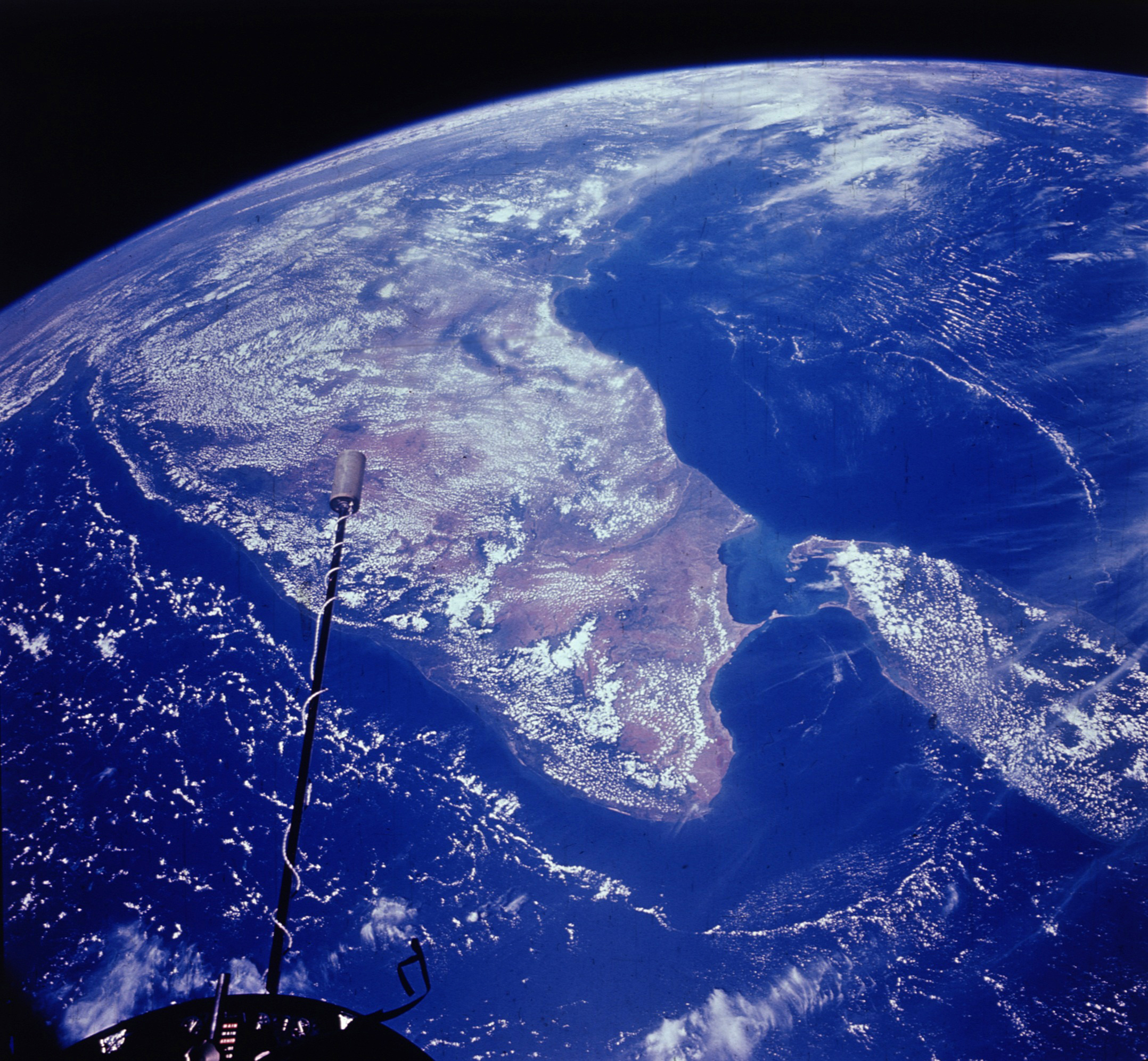 Gemini 11 image of the southern tip of India showing the island of Sri Lanka (formerly Ceylon) and the Arabian Sea and Bay of Bengal. Note the U-shaped cloudline surrounding India, due to subsiding air in the off-shore sea breezes which inhibits cloud formation. The Gemini antenna mast is prominent in the picture at the left. India is roughly 700 km across at the center of the image and north is at 11:00. Distance/Range (km): 817. Central Latitude/Longitude (deg): 12., 78. Instrument: Hasselblad 70-mm Camera. Filter: None